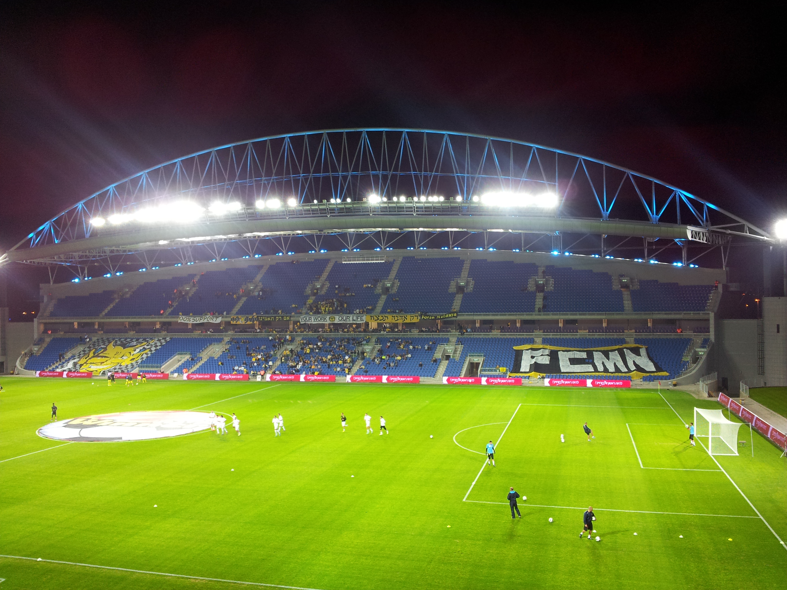 Netanya Stadium